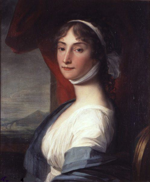 Painting by Jean Laurent Mosnier, 1799, of Friederike Leisching